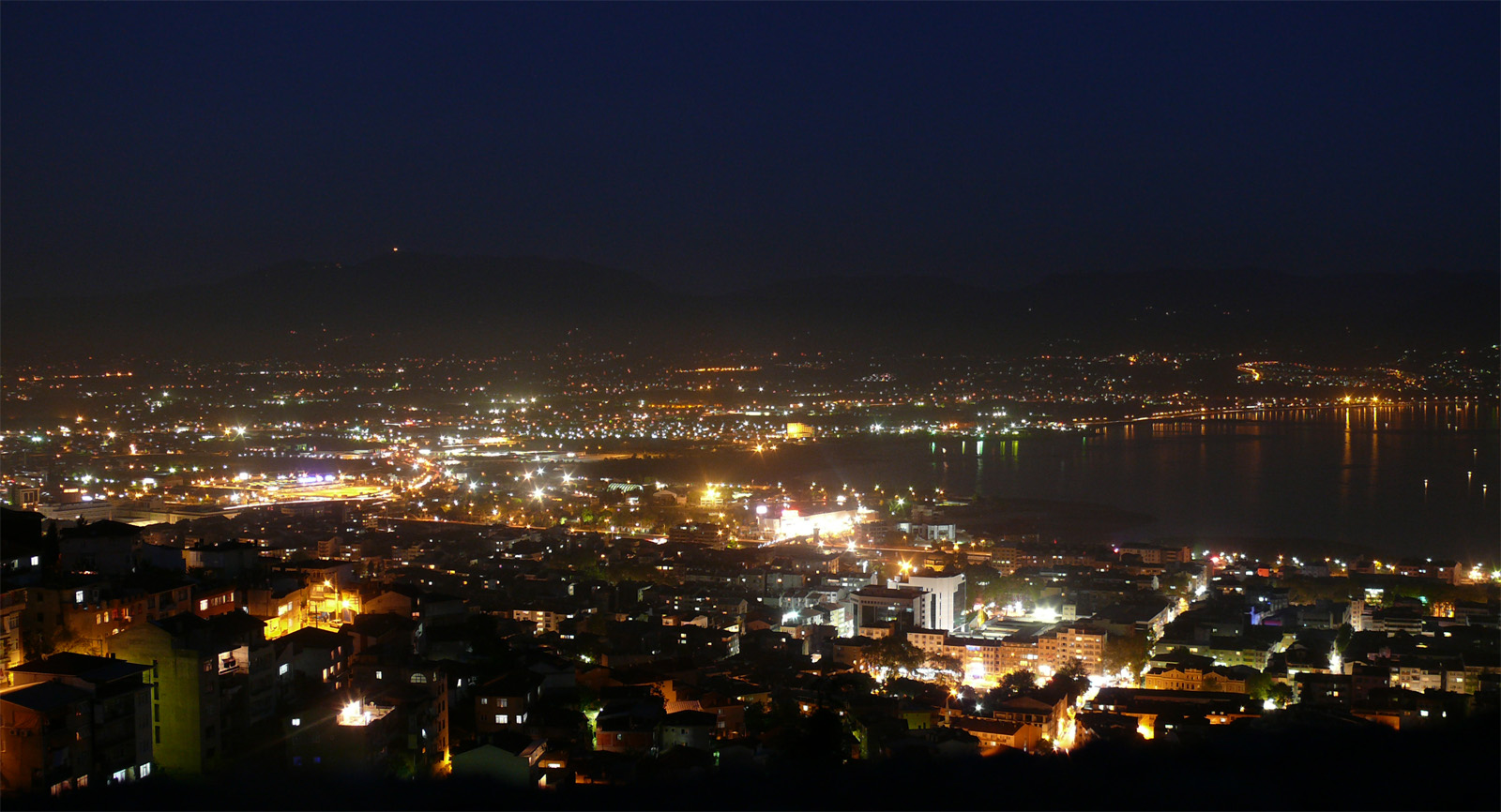 Gulf of İzmit